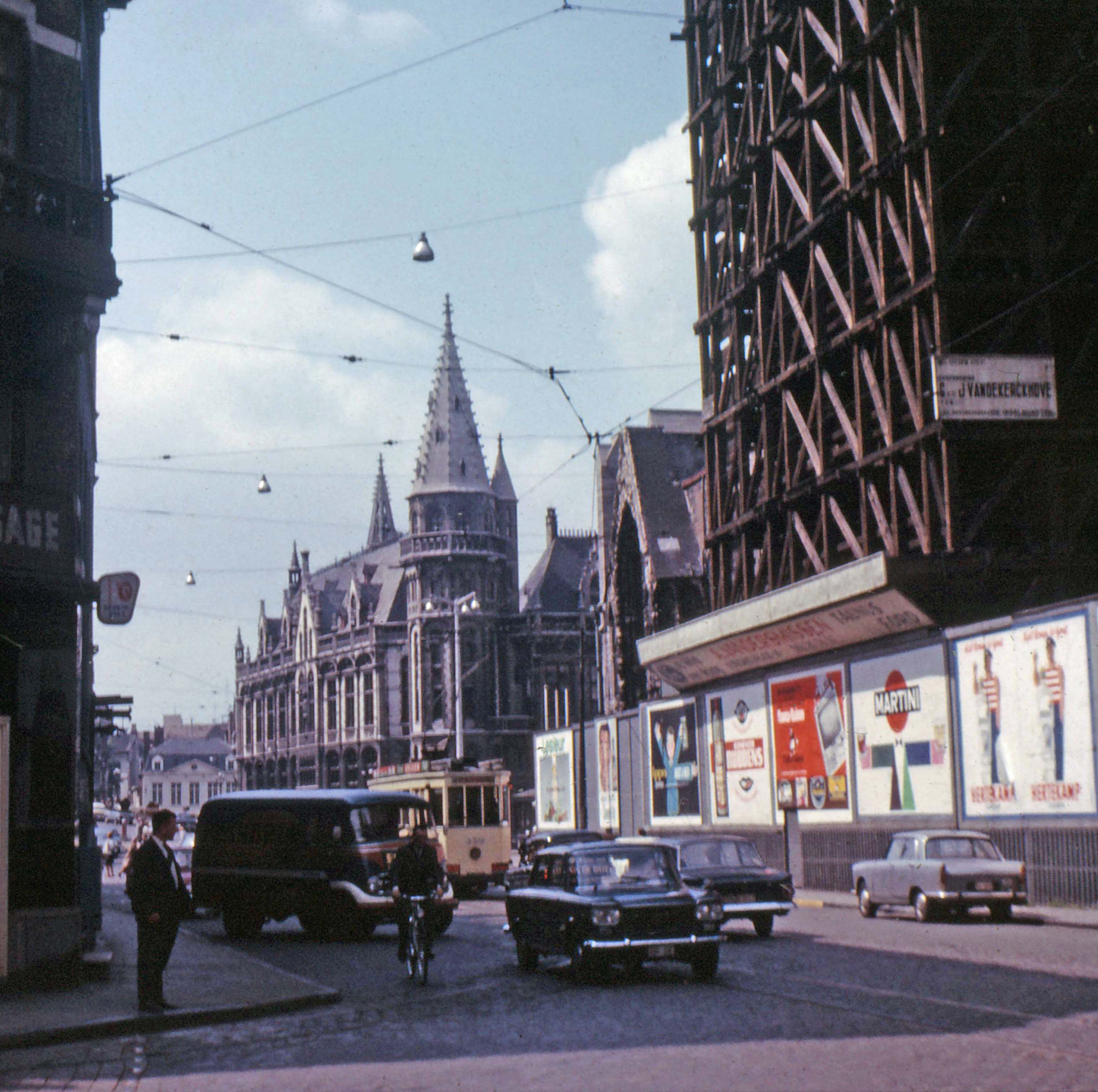 Traffic in Ghent in 1966, about hondred meters from Korenmarkt square. The old tram can de seen. Building with tower is the main post office. Scaffolding on the right are build aroung St. Nicoulaus church.